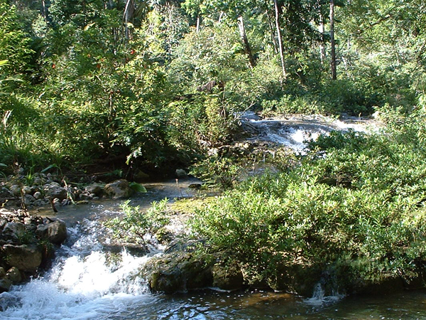 Lower stretches downstream from the swimming area of the Blue Creek, Toledo District, Belize.